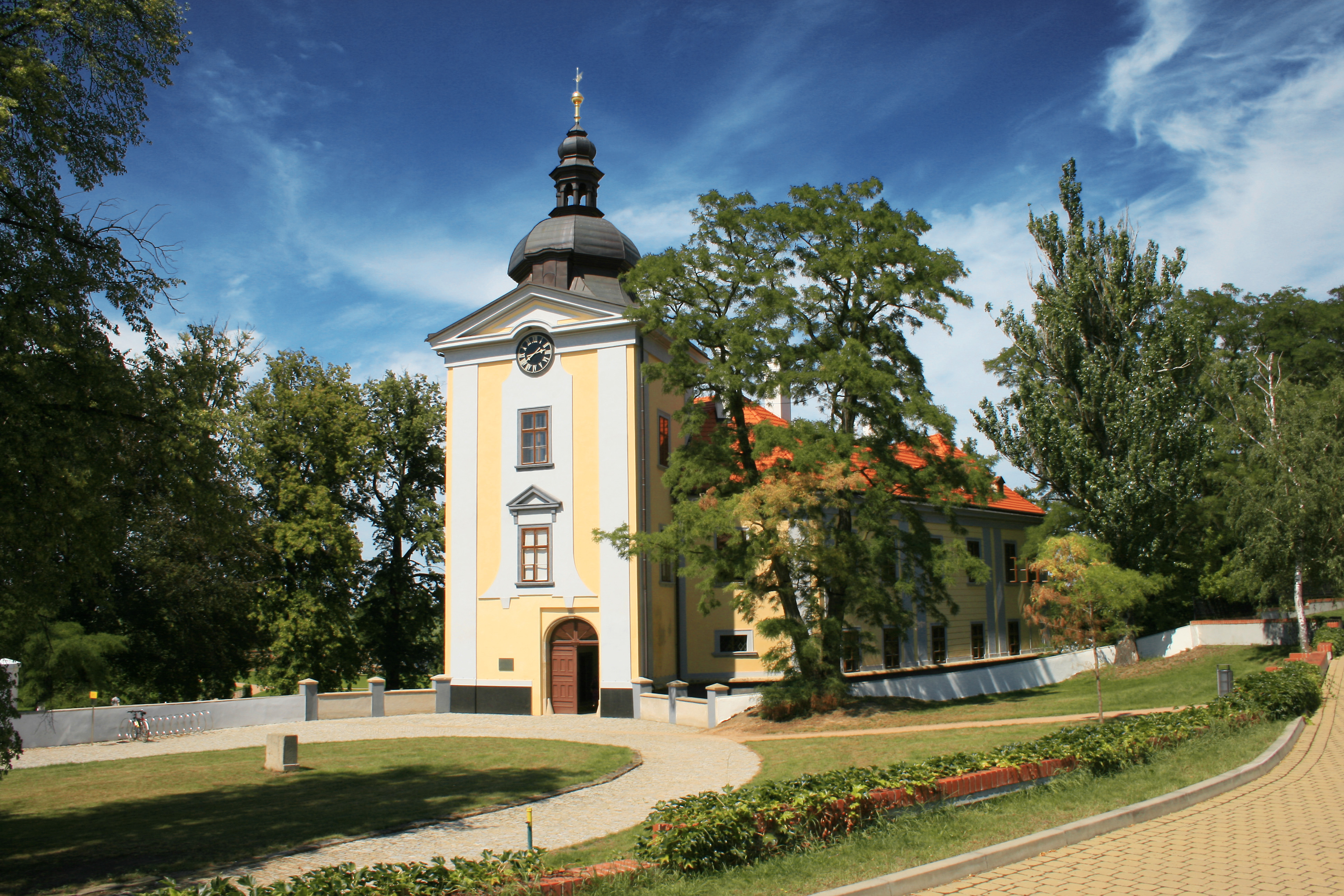 Ctěnice Castle near Prague, Czech Republic